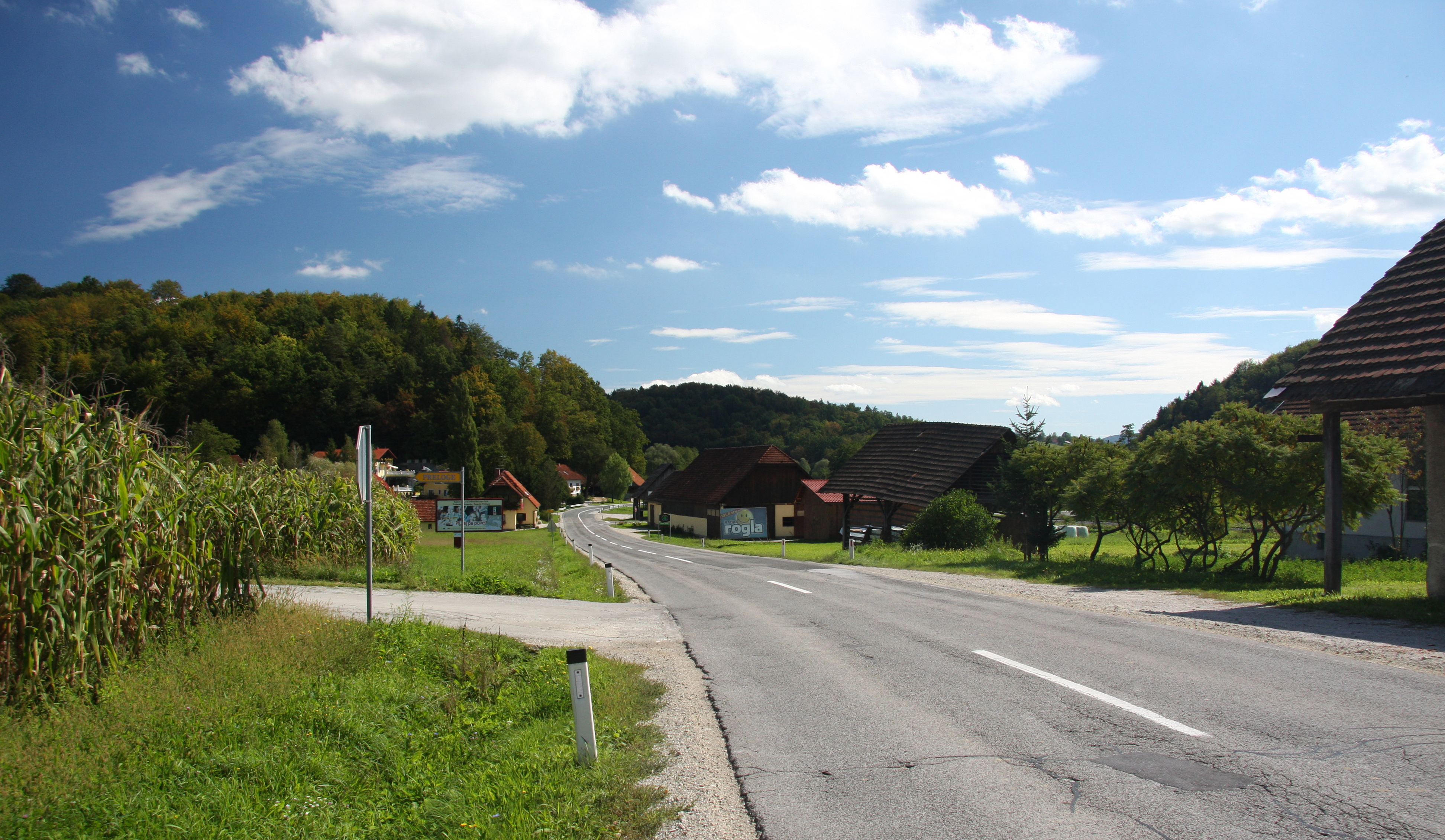 Belo, a village in Šmarje pri Jelšah municipality, Slovenia.